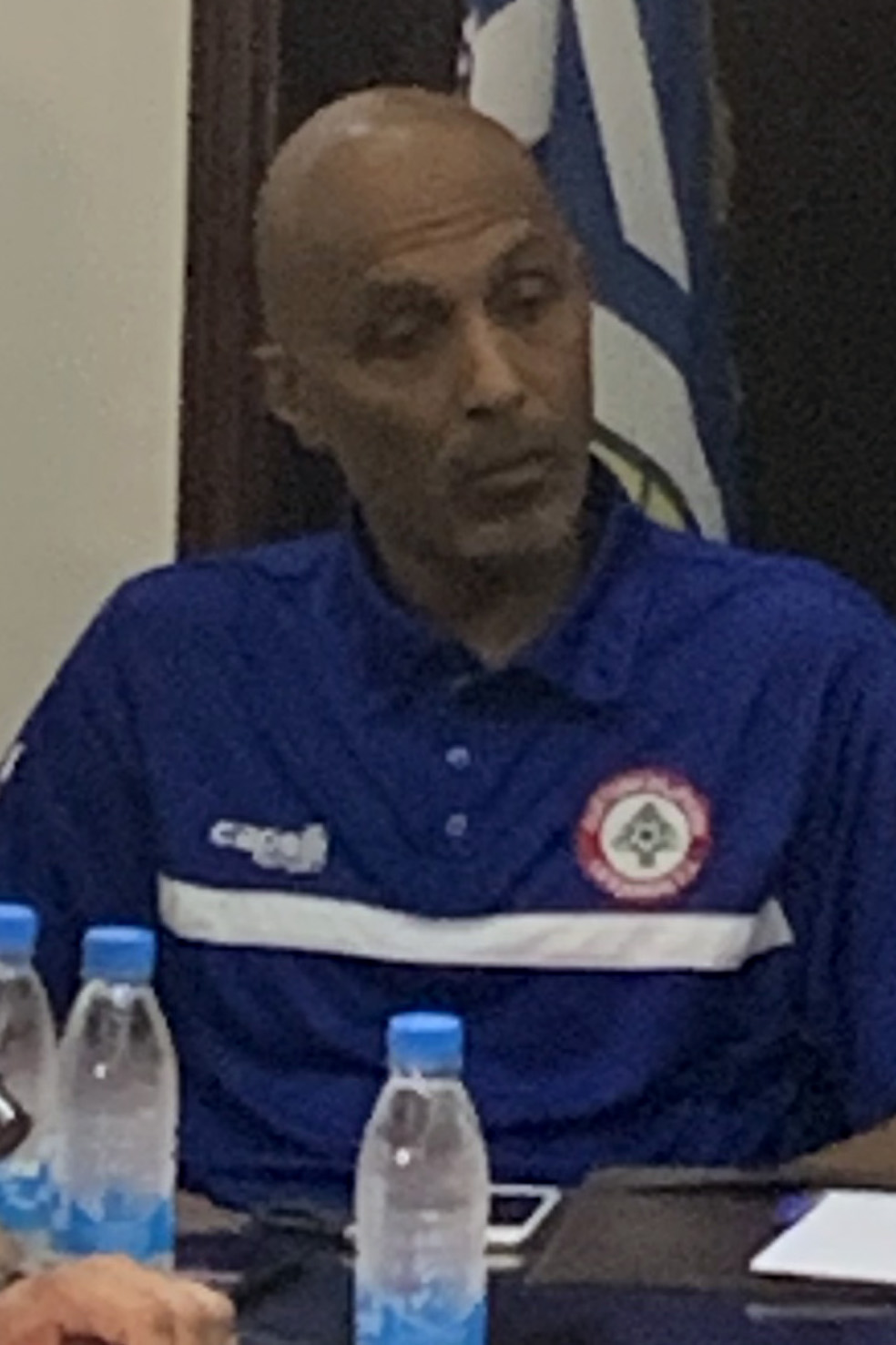 Jamal Taha press conference